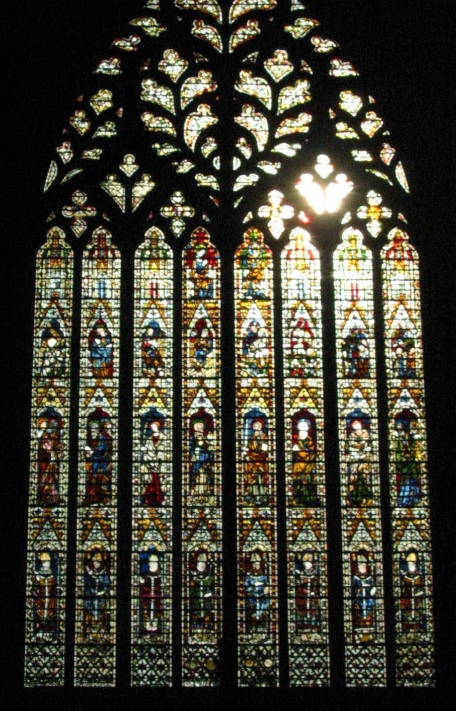 York Minster West Window. Photo by Asterion